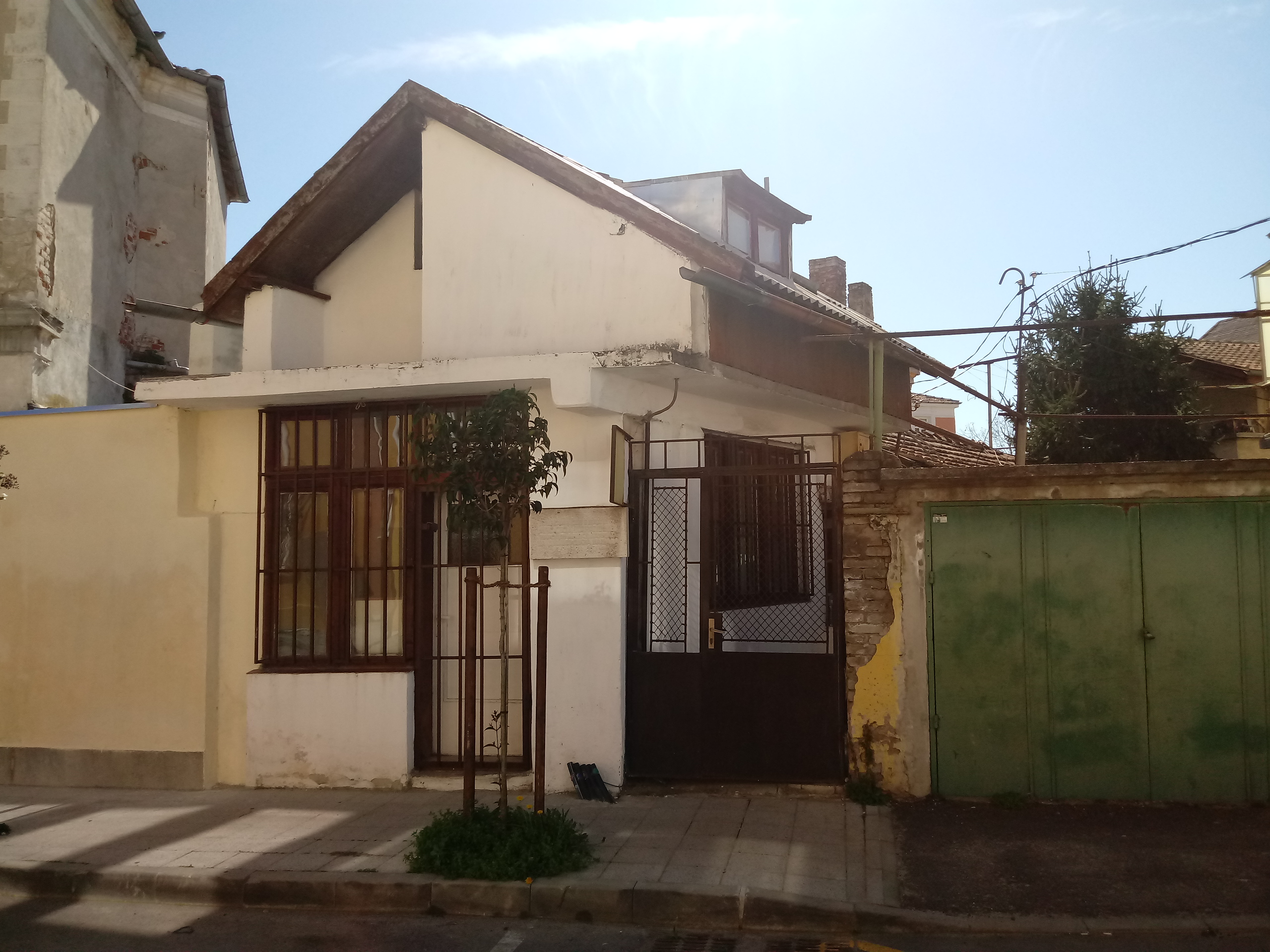 Apostol Karamitev home with memorial plaque, Morska Str., Burgas